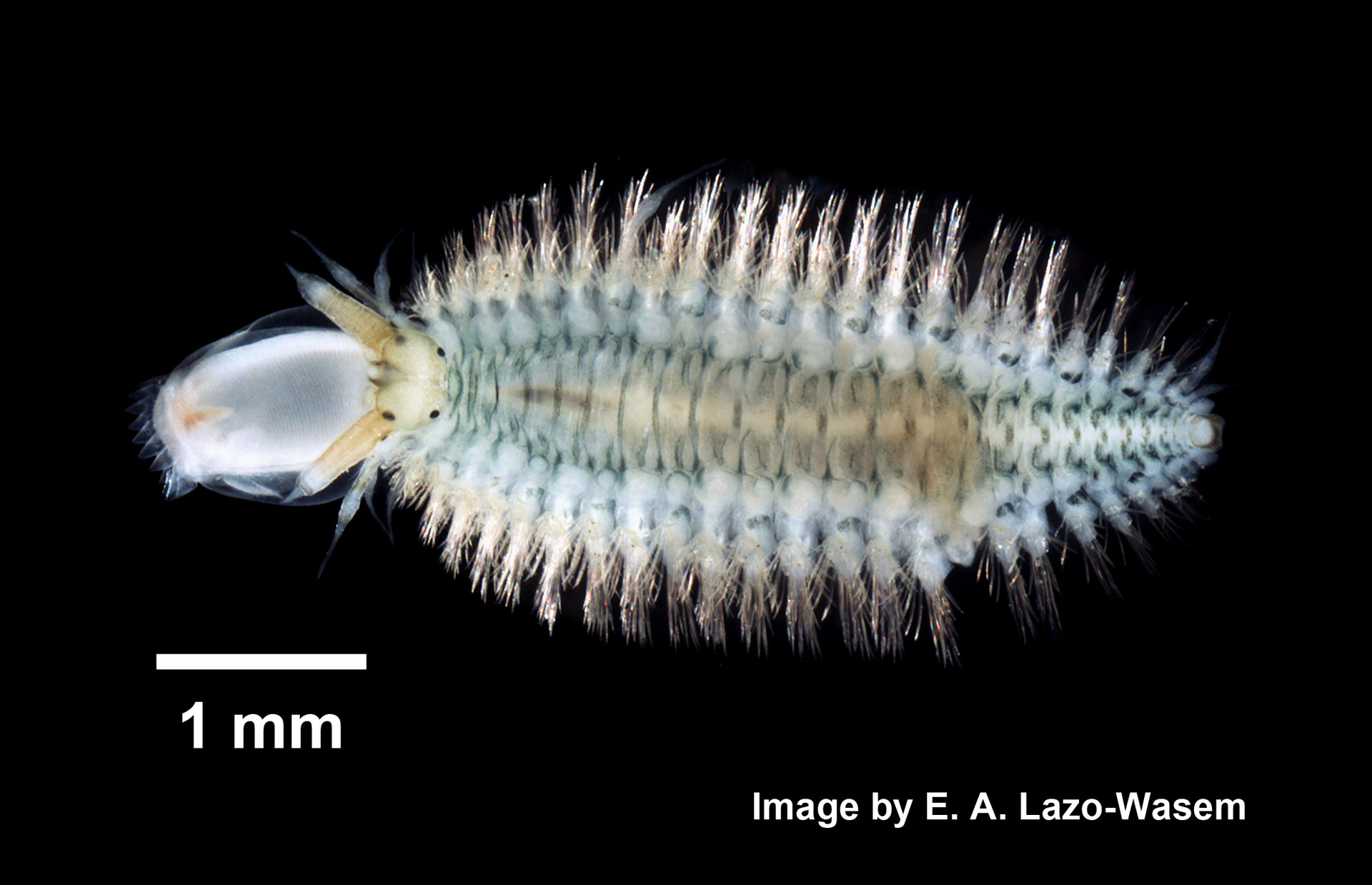 PRESERVED_SPECIMEN; ; ; microslide; microslide; GM Image; Gray Museum; IZ number 75953; lot count 1; Microslide 01, balsam, whole mount; 2015-05-05T00:00:00Z